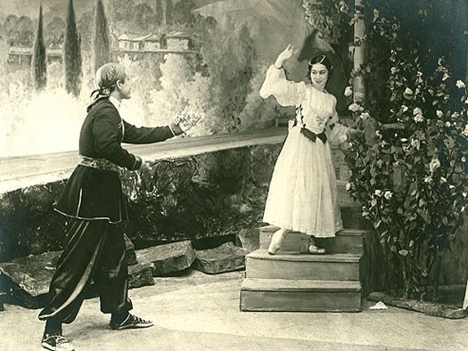 Azerbaijani "Maiden Tower" Ballet. K. Batashov and Q. Almaszadeh as Gulyanaq.